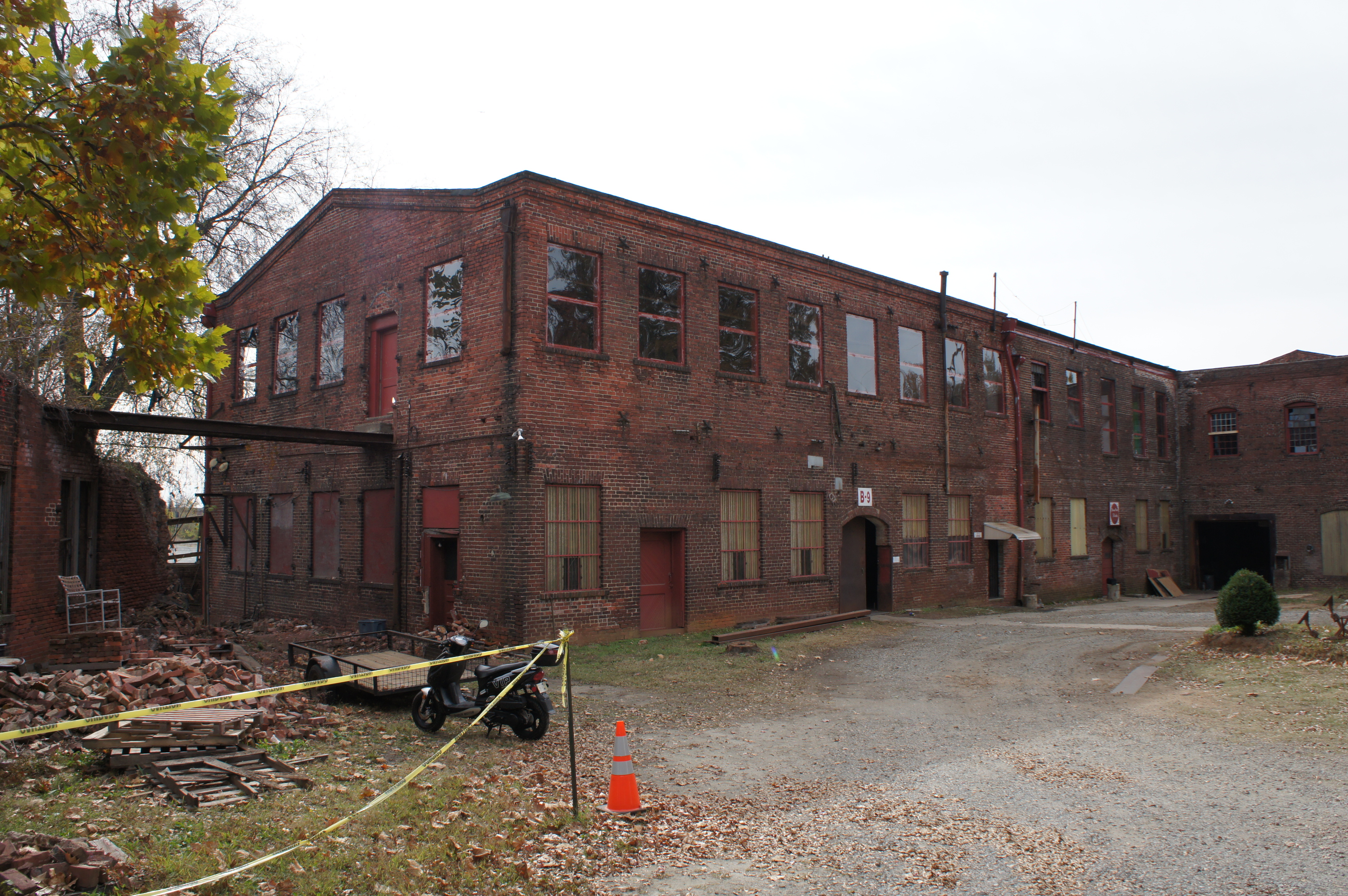 E. Van Winkle Gin and Machine Works